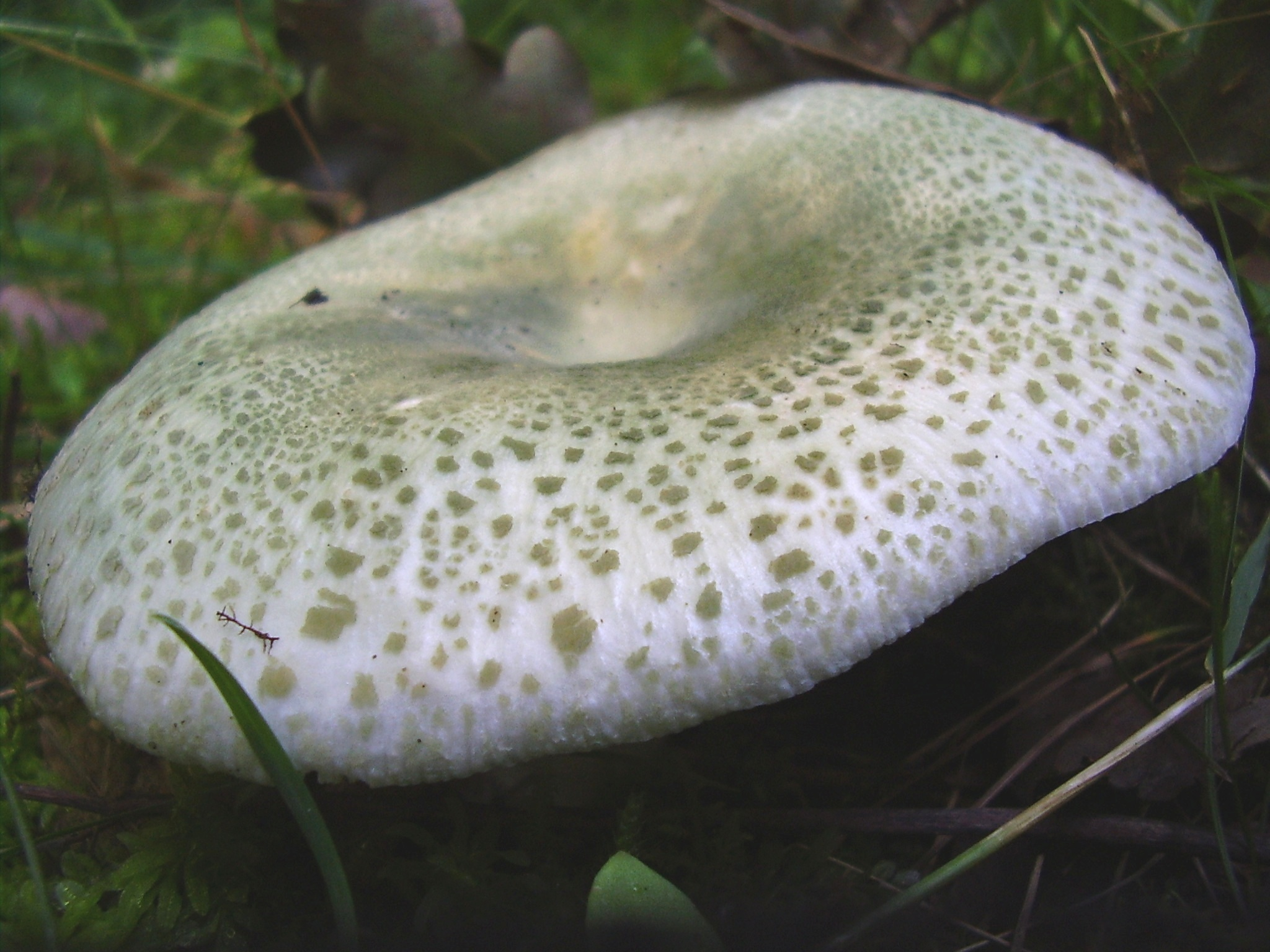 Russula virescens from oak woodland in western Bulgaria.